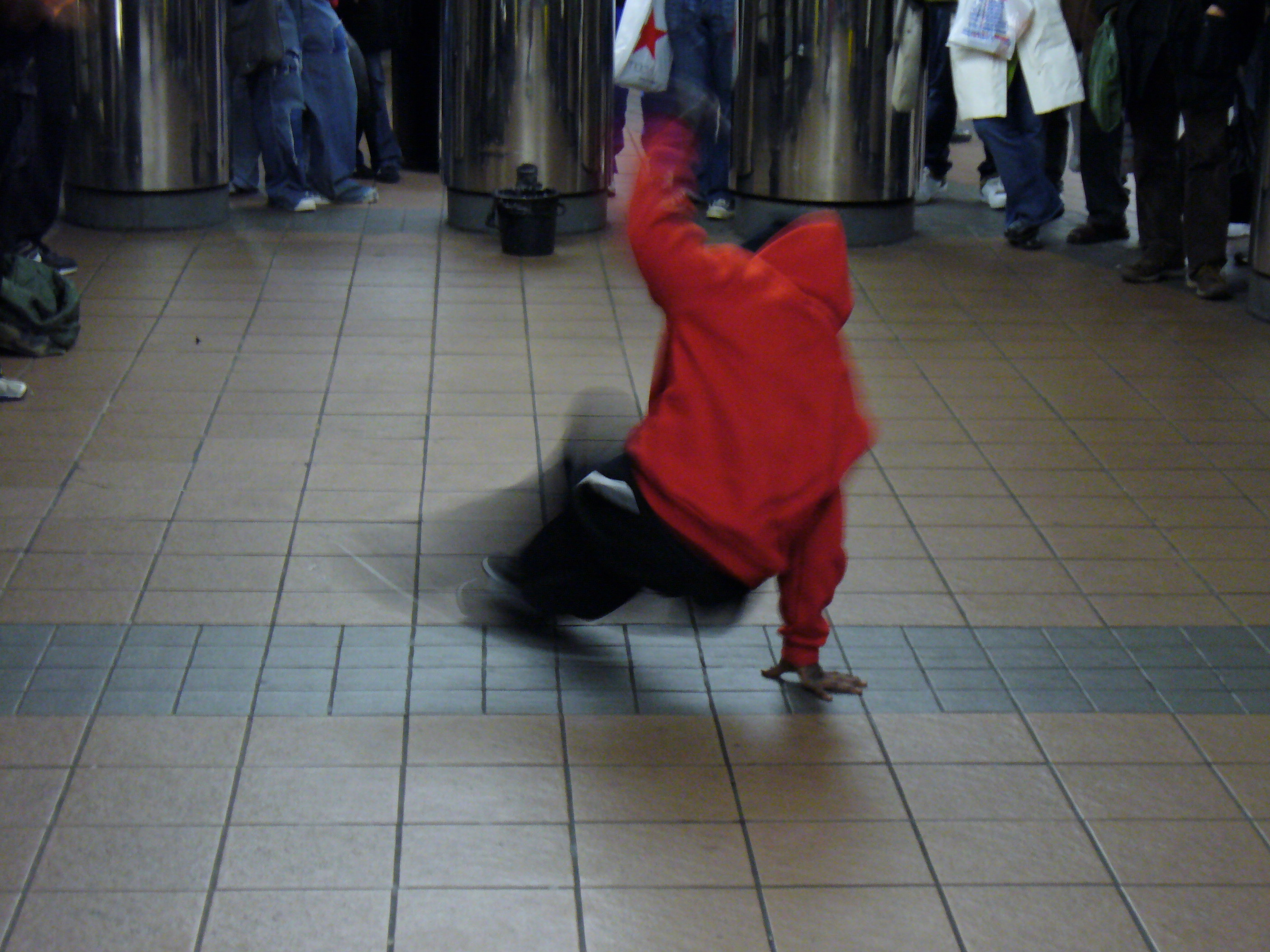 Break dancer by David Shankbone